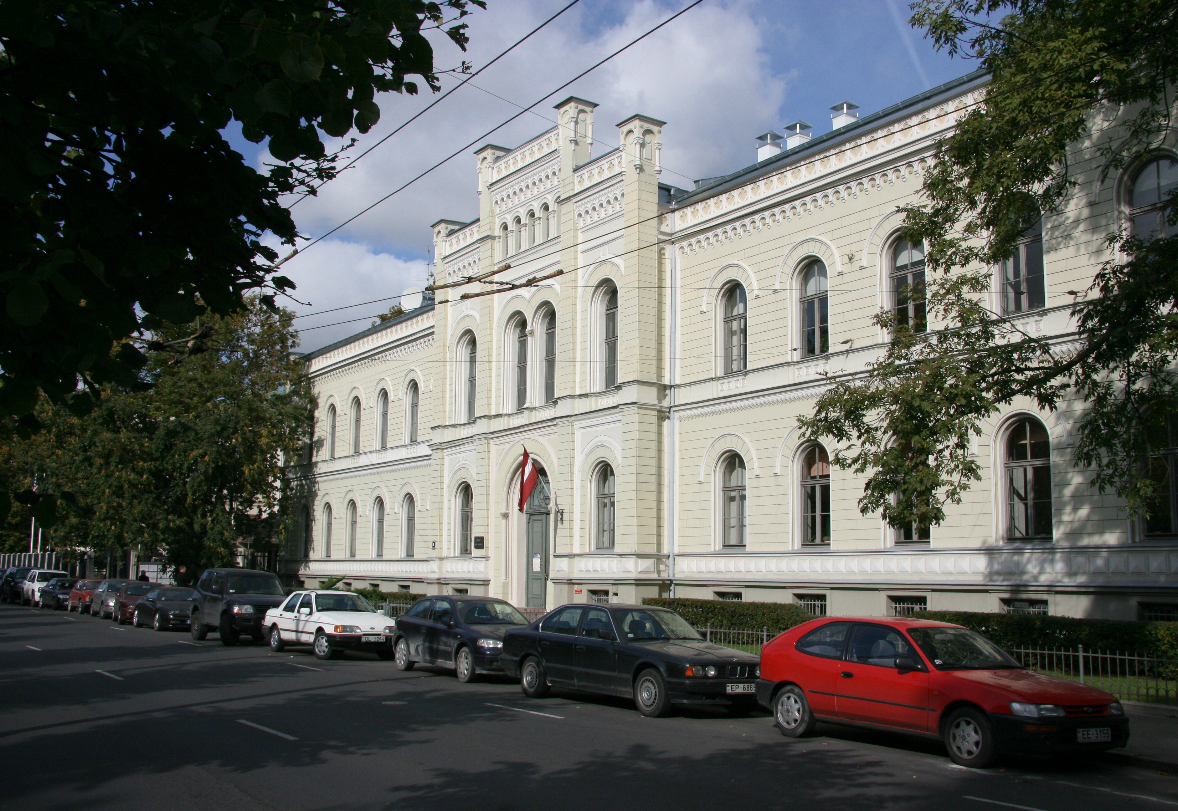 Building of Riga State Gymnasium No.1